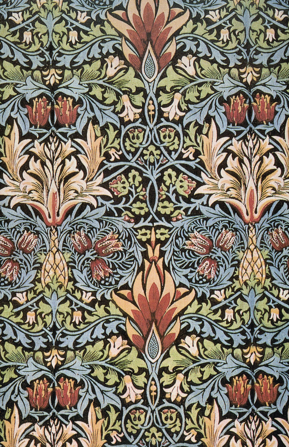 Snakeshead printed cotton designed by William Morris. (Identification from Linda Parry: William Morris Textiles, New York, Viking Press, 1983, ISBN 0-670-77074-4, p. 150)